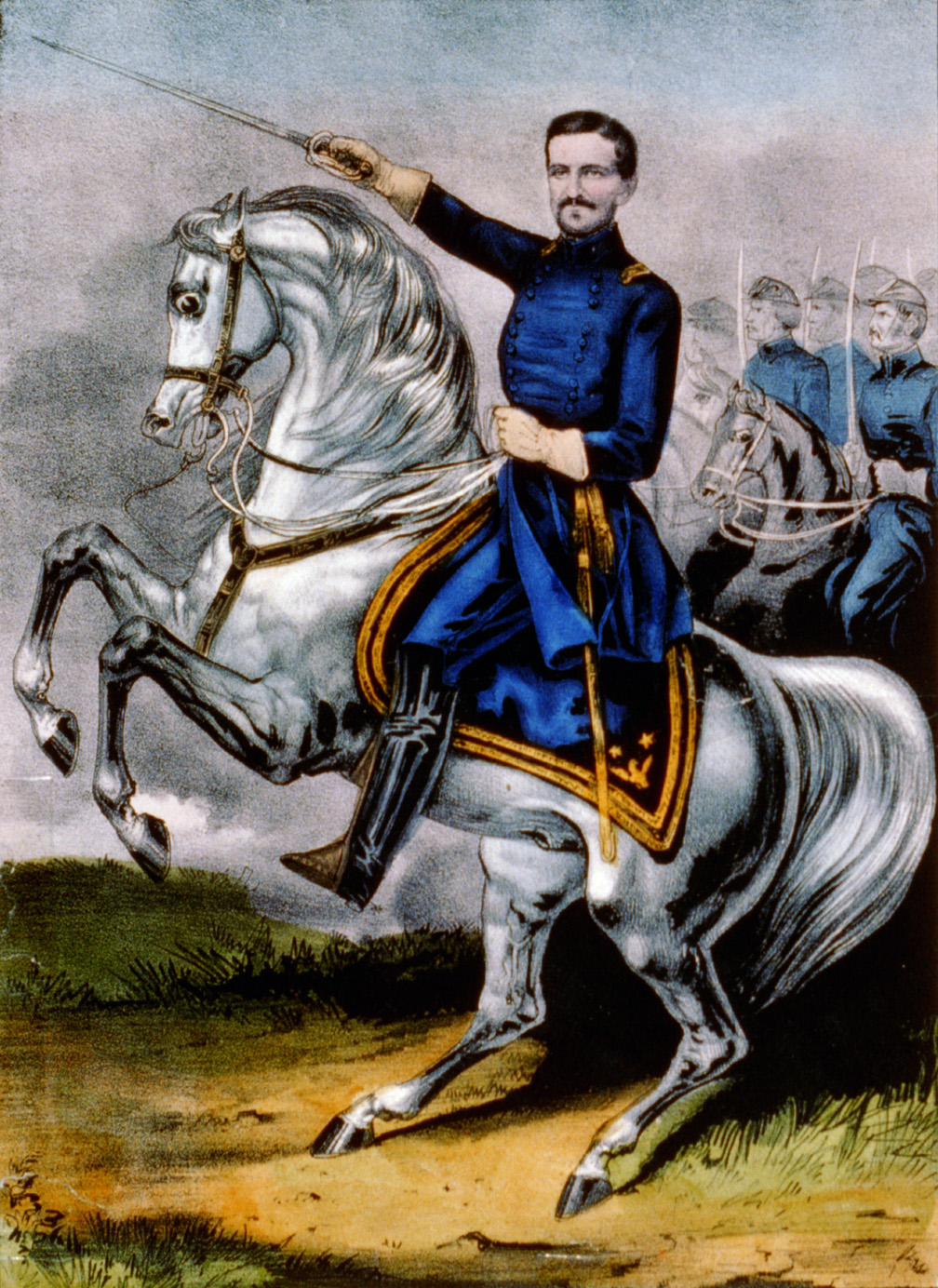 Majr. Genl. William S. Rosecrans: at the Battle of Murfreesboro, Jany. 2nd 1863.